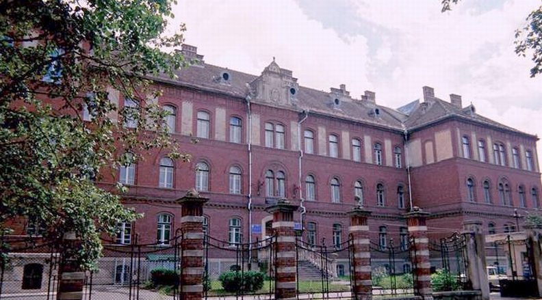 Teachers House in Cluj-Napoca, Romania